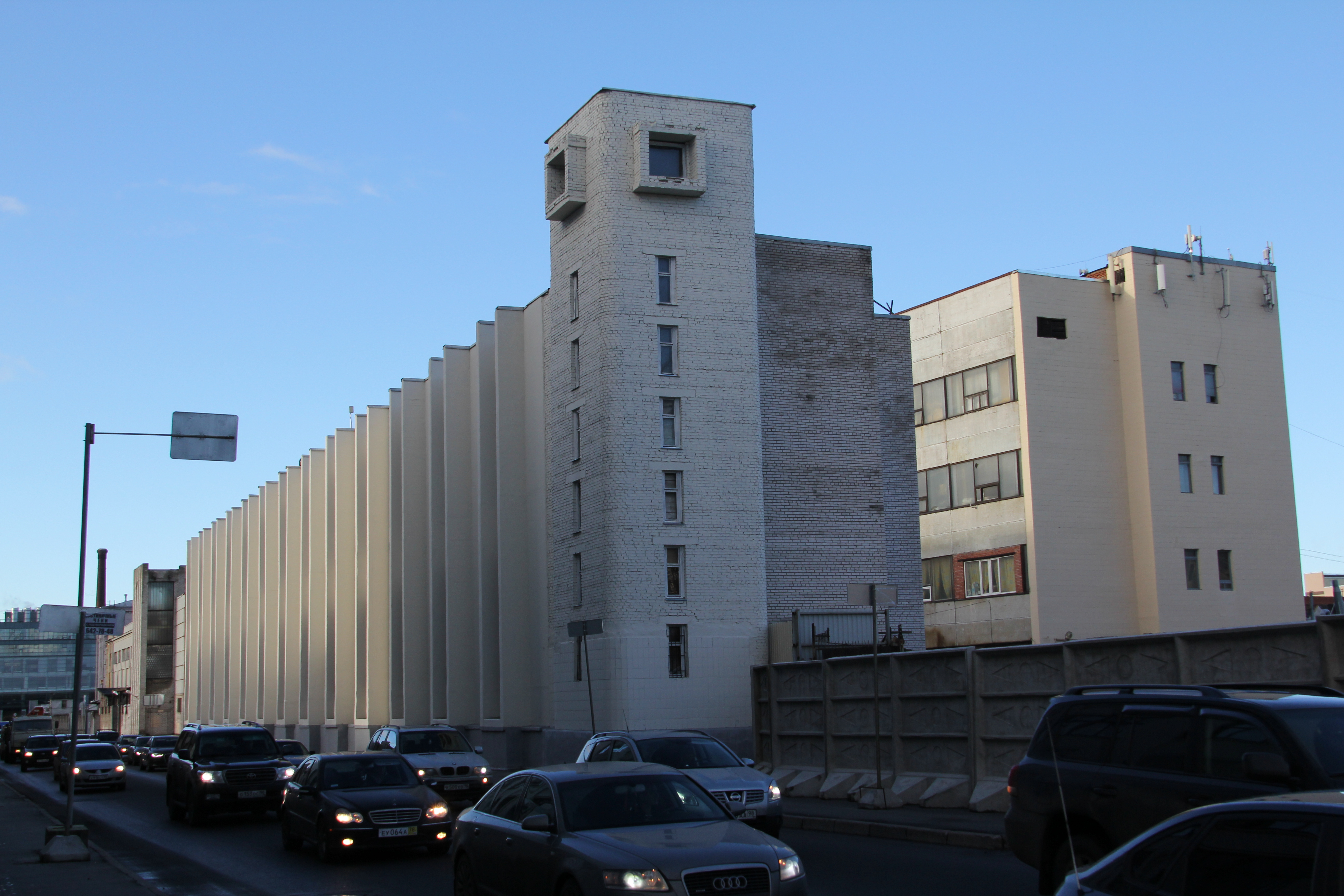 Building of water treatment facilities of "Mezon" plant